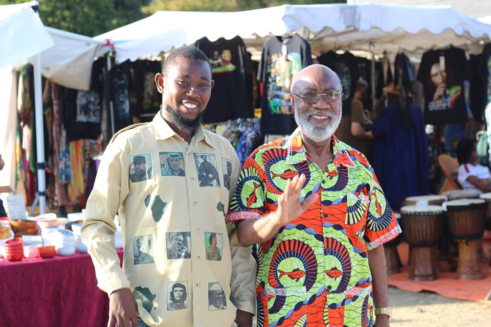 Nash MC with Hashim Rungwe—chairman of the political party from Tanzania known as CHAUMA. They bumped into each other in Berlin Germany in August-2018. Kiswahili: Nash MC na Hashim Rungwe—mwenyekiti wa chama cha kisiasa maarufu kama CHAUMA. Walikutana huko Ujerumani mnamo Agosti-2018 katika tamasha la mauzo ya vifaa vya vyenye asili ya Afrika.